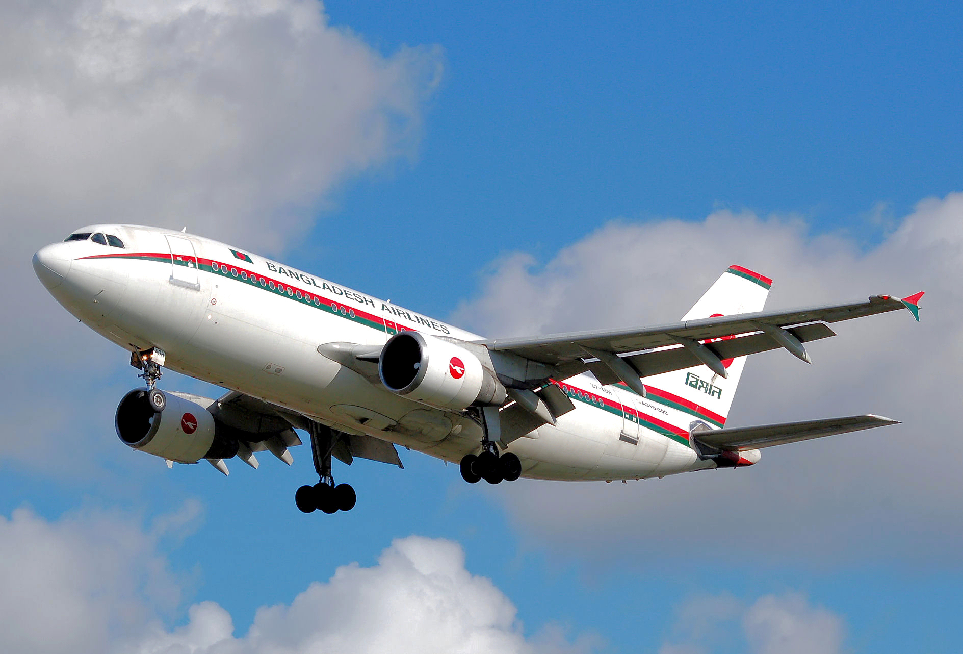 Biman Bangladesh Airlines Airbus A310-300 (S2-ADH) lands at London Heathrow Airport, England.